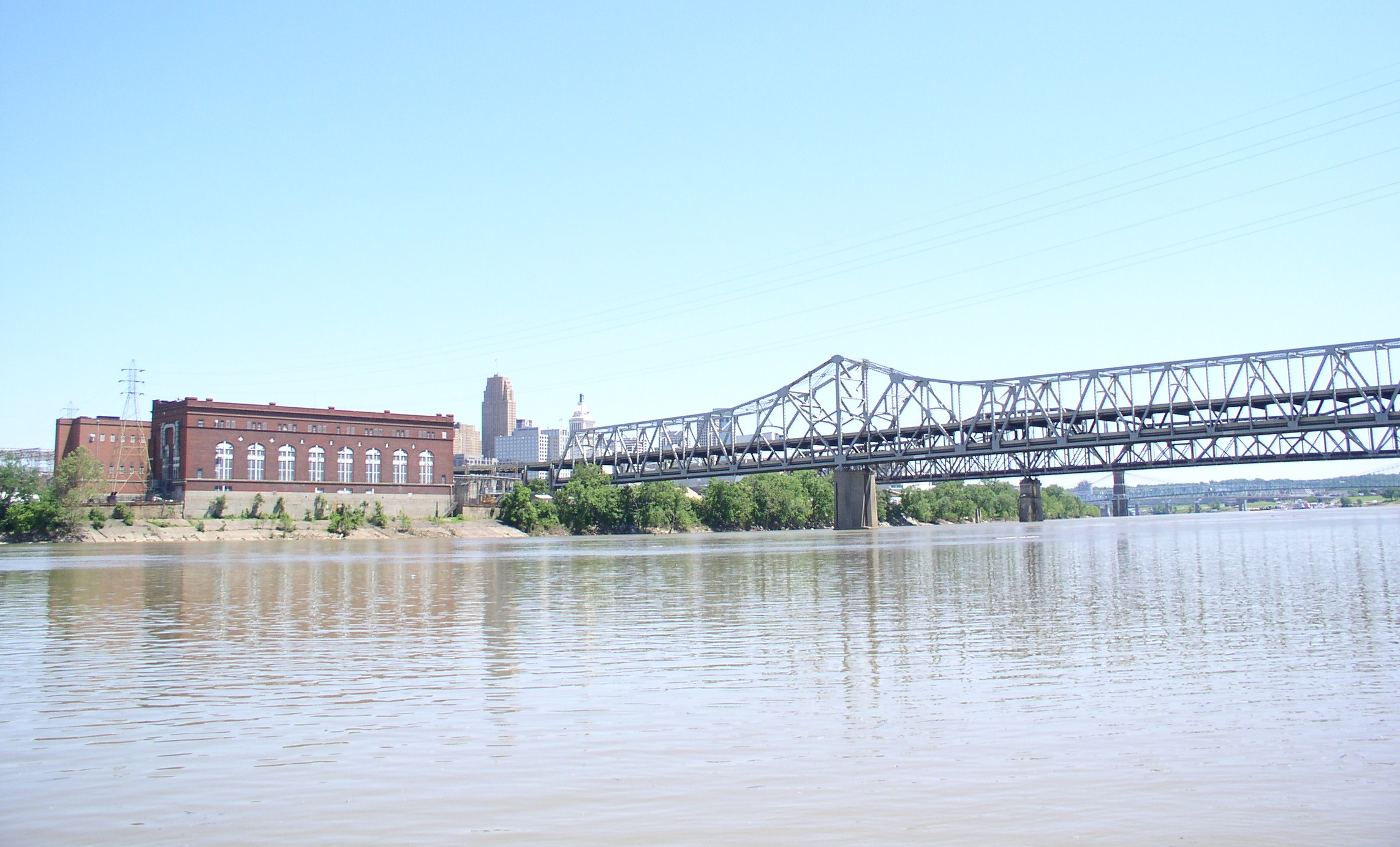 Photo of the Ohio River, Brent Spence Bridge, and Cincinnati in the distance